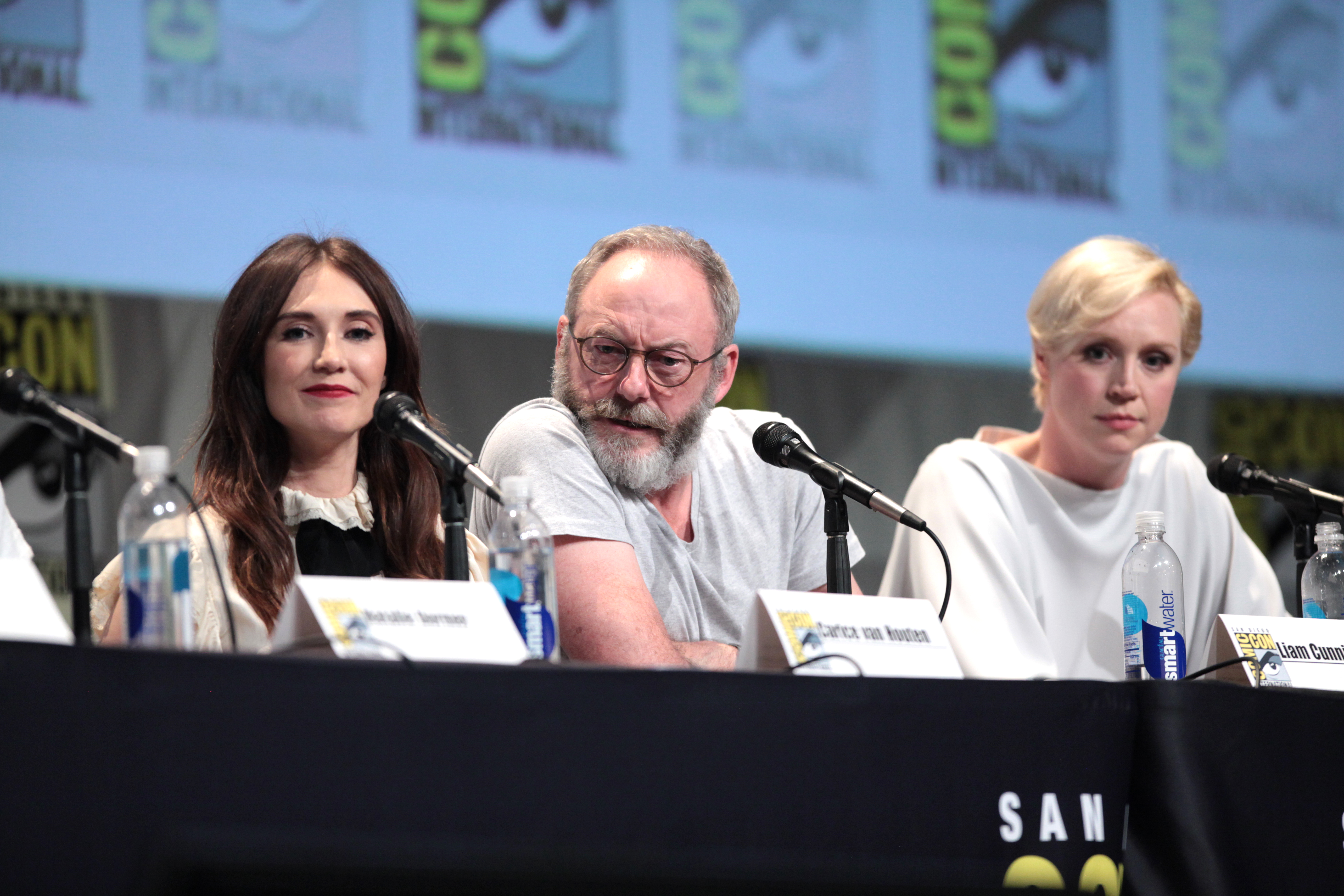 Carice van Houten, Liam Cunningham and Gwendoline Christie speaking at the 2015 San Diego Comic Con International, for "Game of Thrones", at the San Diego Convention Center in San Diego, California.